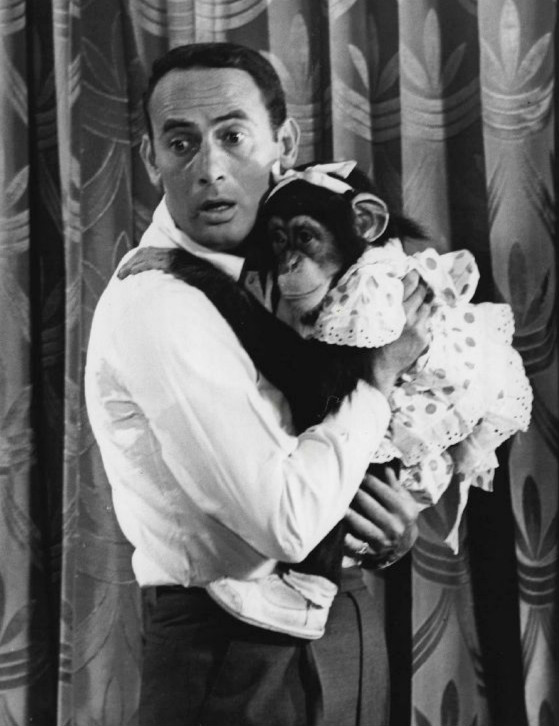 Photo of Joey Bishop and one of the Marquis Chimps. Just as Joey gets ready to meet Jack Paar, he finds himself deep in monkey business. from The Joey Bishop Show (sitcom)